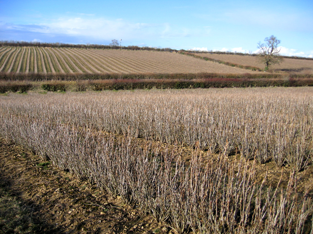 Blackcurrant fields in winter, Stoke-sub-Hamdon, Somerset. – view N over the Small Moor Brook valley.